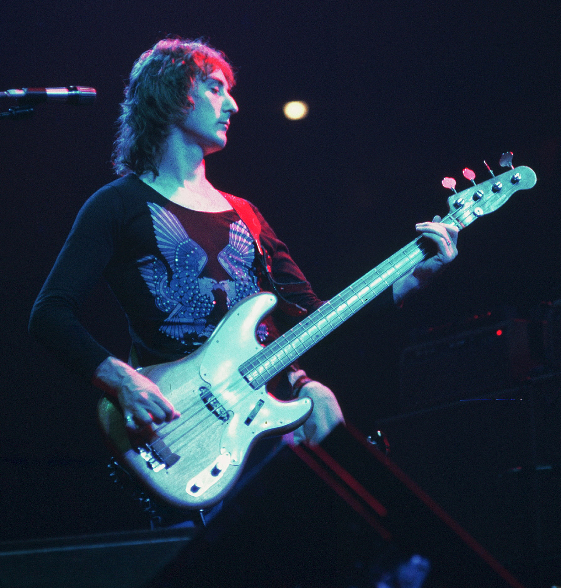 Denny Laine, English rock musician with the Moody Blues and Wings (as pictured here)